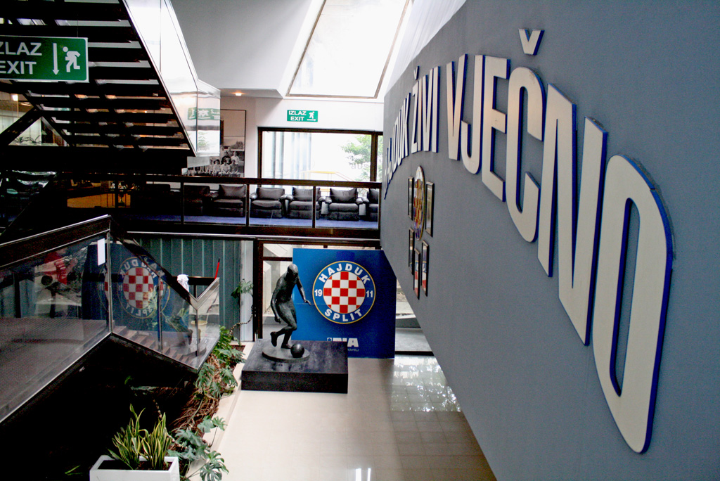 Poljud - main lobby